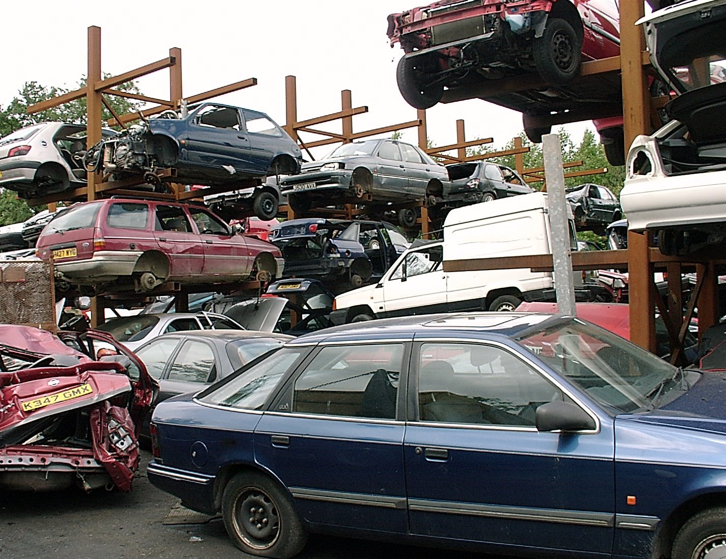 Photograph taken by me of a breakers yard in the England. It shows cars stacked on a metal framework so that usable parts can be more easily found and removed.